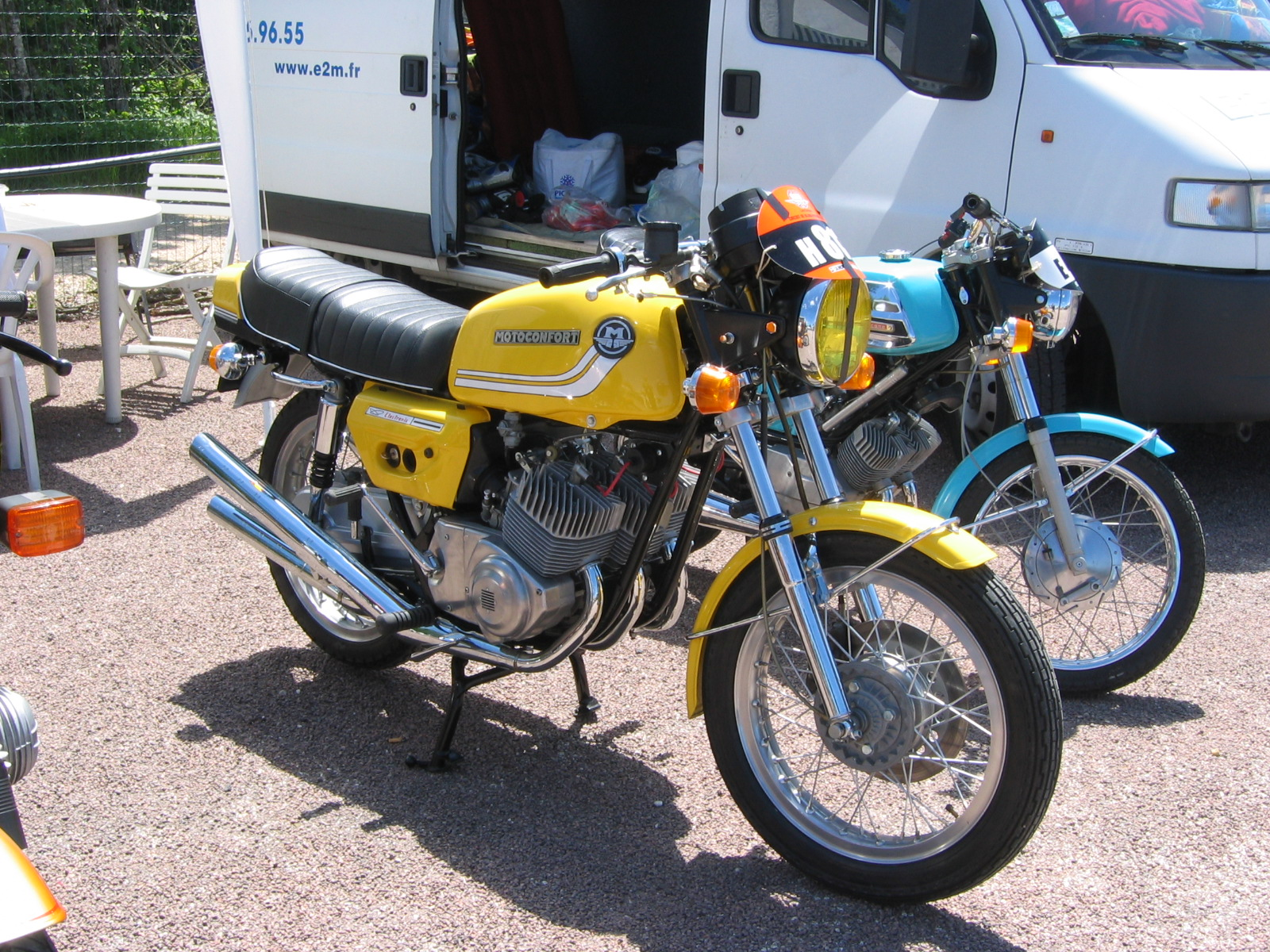 Motoconfort 350 : french motorcycle in the seventies. Picture : Gérard Delafond